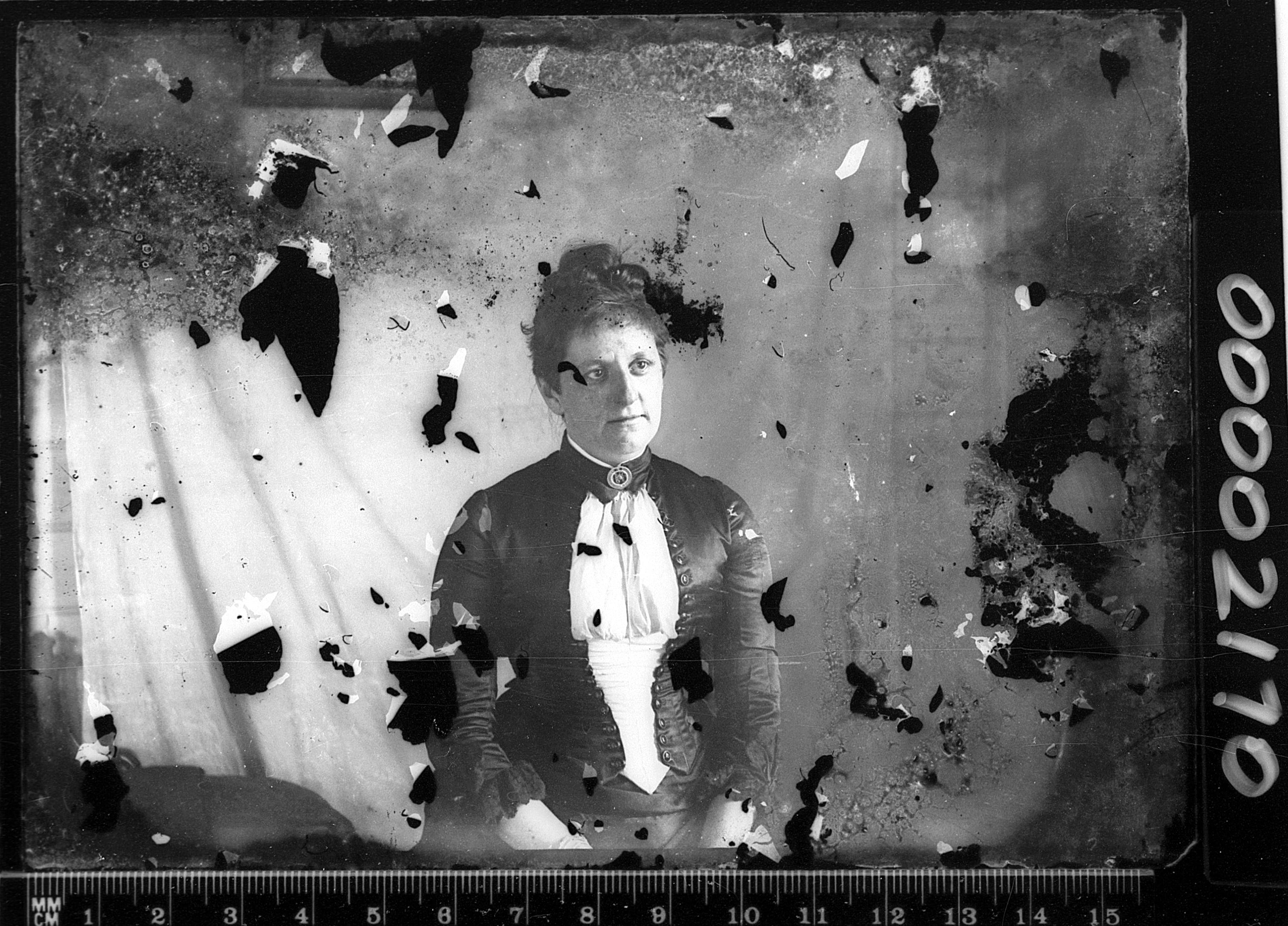 This photo is part of the Australian National Maritime Museum’s William Hall collection. If reproduced or distributed, this image should be clearly attributed to the collection of the Australian National Maritime Museum; and not be used for any commercial or for-profit purposes without the permission of the museum. For more information see our Flickr Commons Rights Statement. The ANMM undertakes research and accepts public comments that enhance the information we hold about images in our collection. This record has been updated accordingly. Object no. 00002170